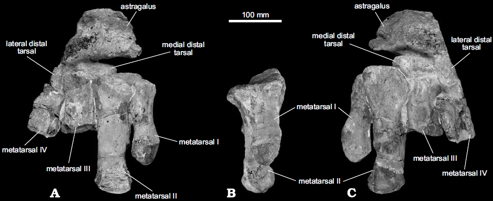 Sauropodomorph dinosaur Glacialisaurus hammeri gen. et sp. nov. from the Early Jurassic Hanson Formation at Mt. Kirkpatrick, Beardmore Gla− cier region, Antarcticac. Right pes (FMNH PR1823) in anterior (A), medial (B), and posterior (C) views. Astragalus and distal tarsals have been digitally re− moved in B.